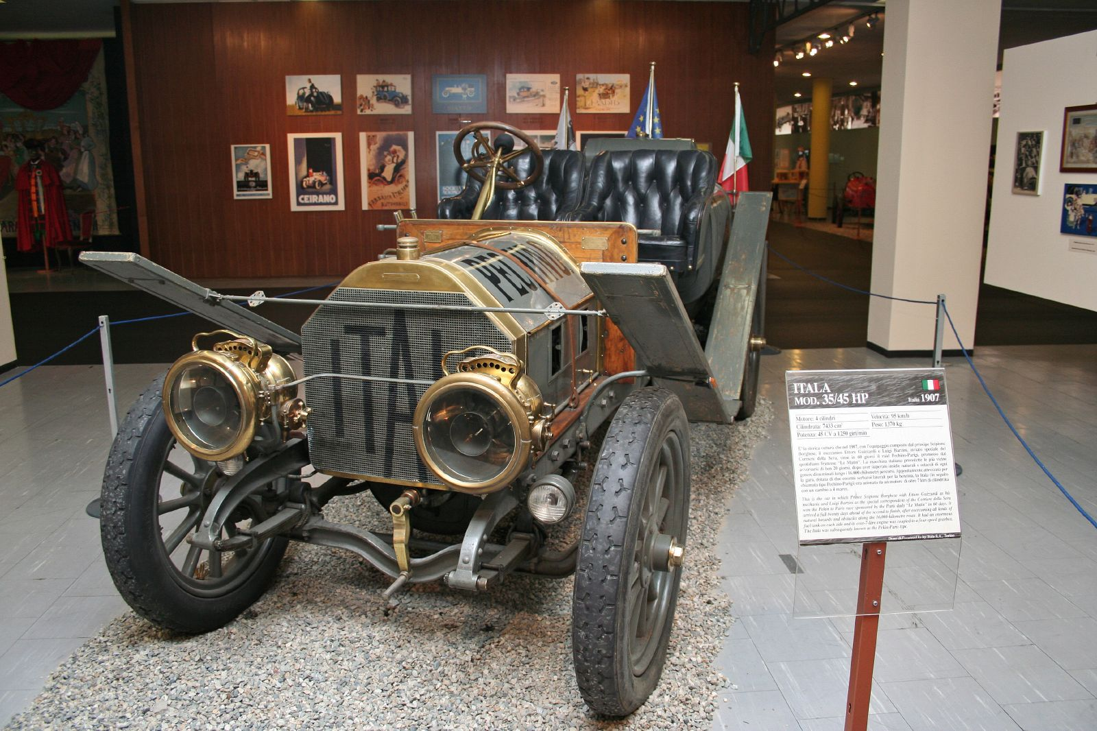 ITALA mod. 35/45 HP (Pechino – Parigi) at MUSEO DELL'AUTOMOBILE Torino